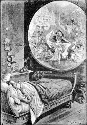 A man see live television in his bed.